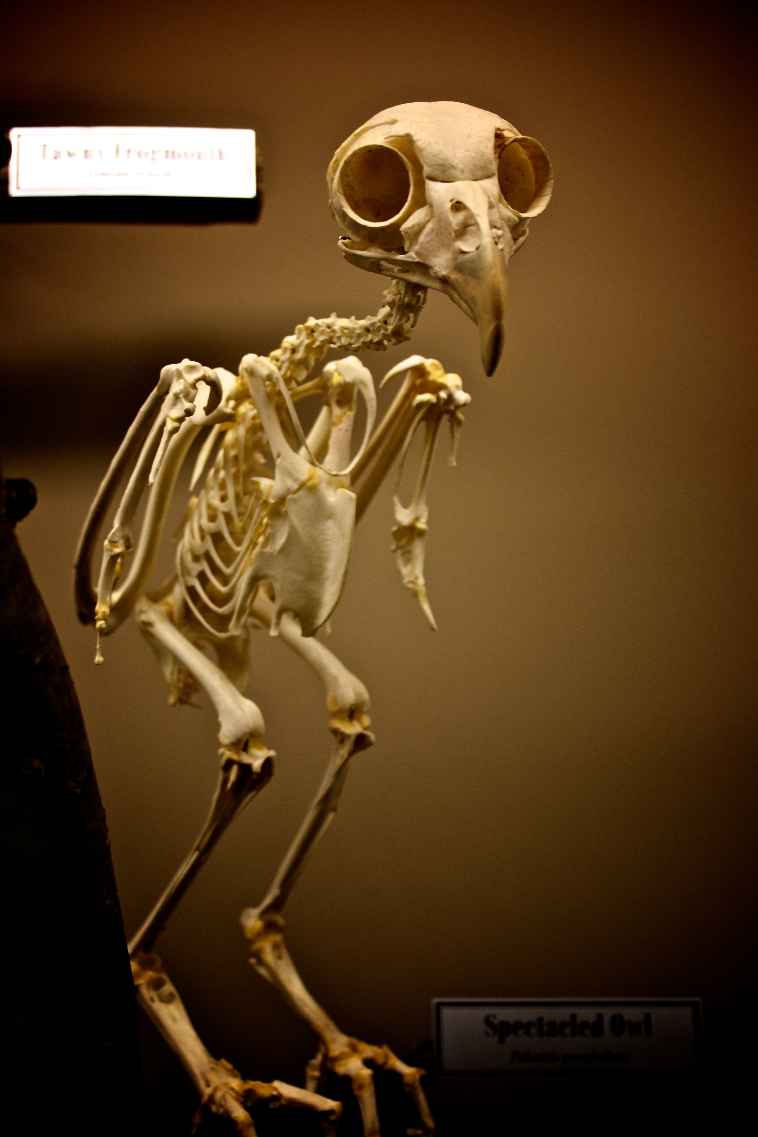 Skeleton of a Pulsatrix perspicillata at the Osteology Museum of Oklahoma